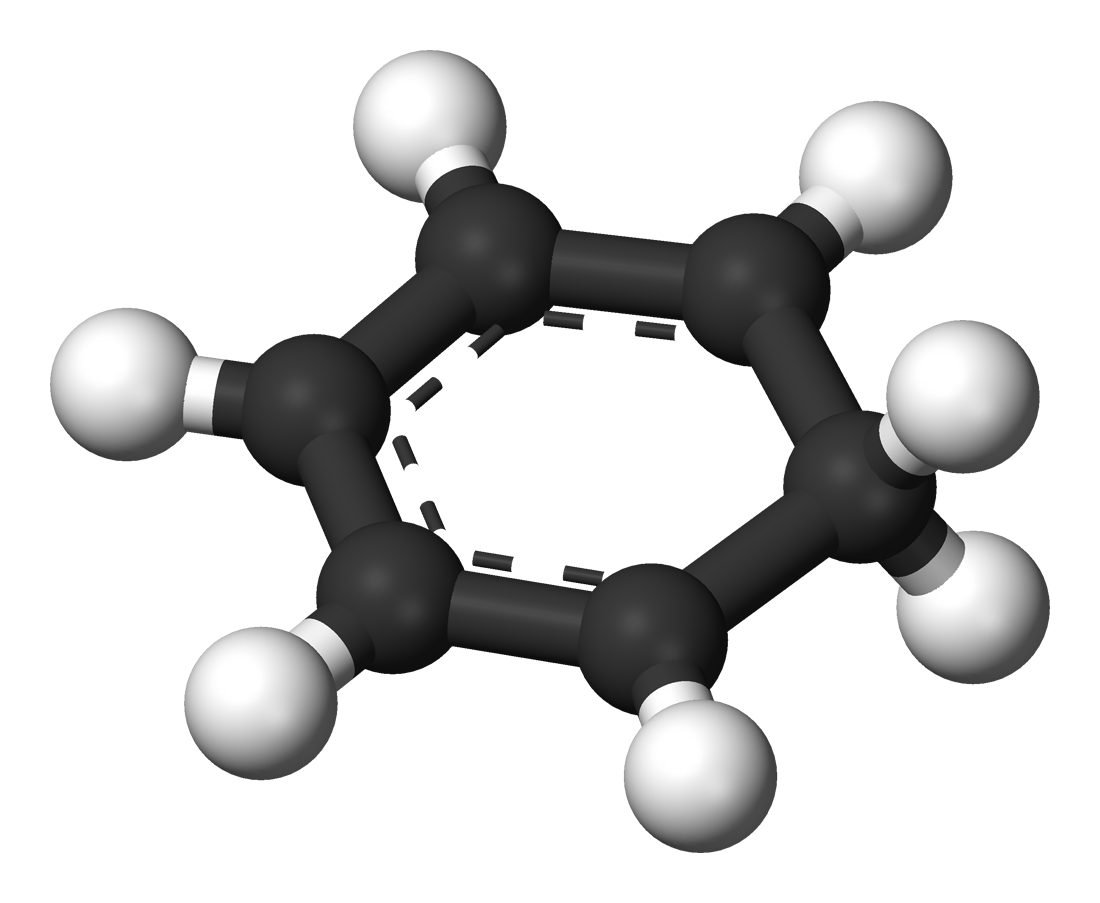 arenium ion